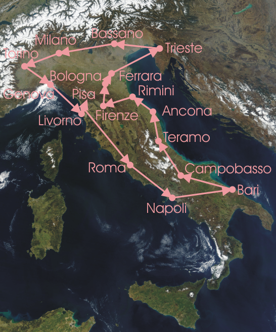 Map of Italy highlighting the stages of 1934 Giro d'Italia